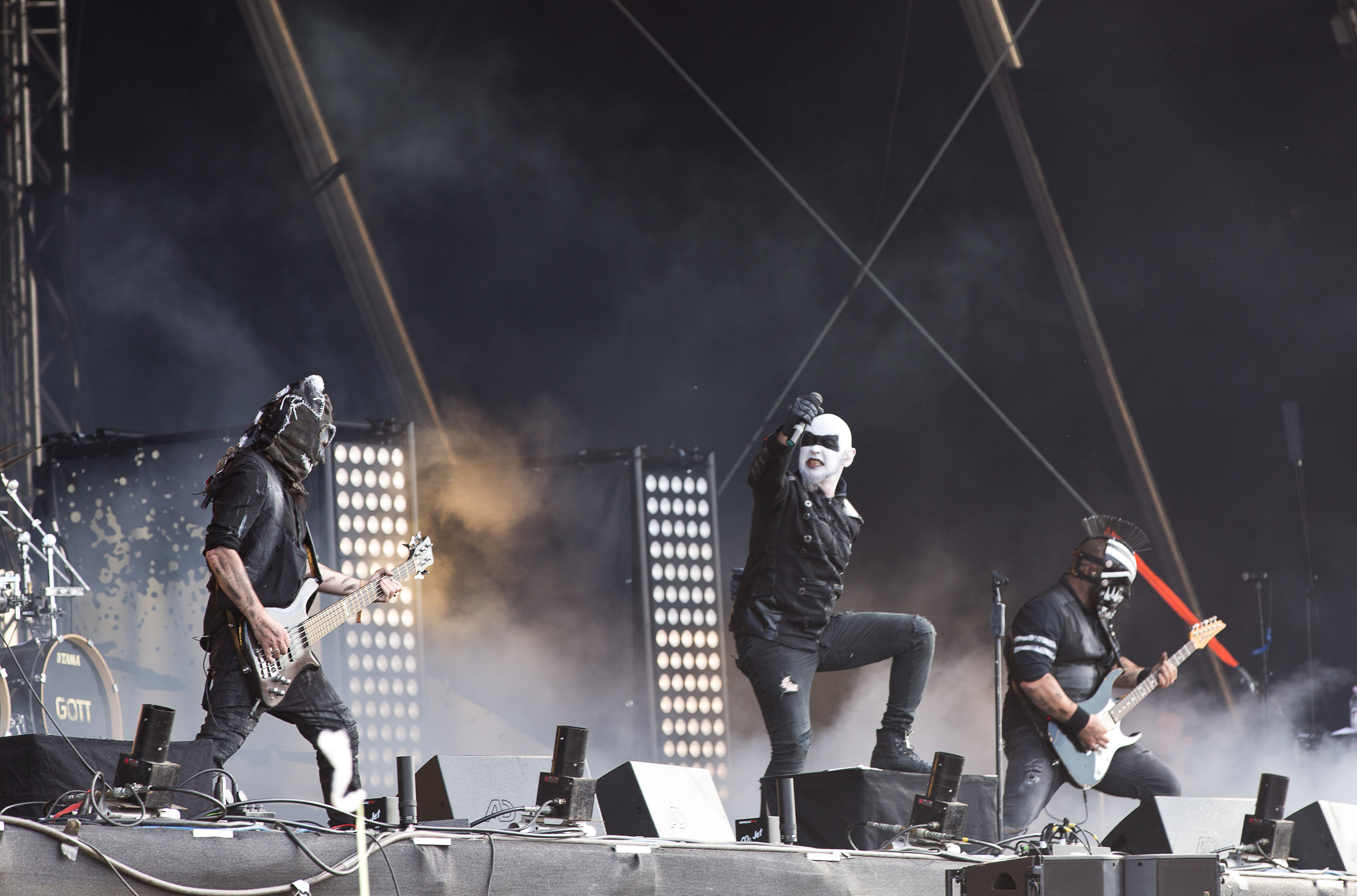 The German Neue Deutsche Härte band Hämatom at the Rockharz Open Air 2016 in Ballenstedt/Germany.